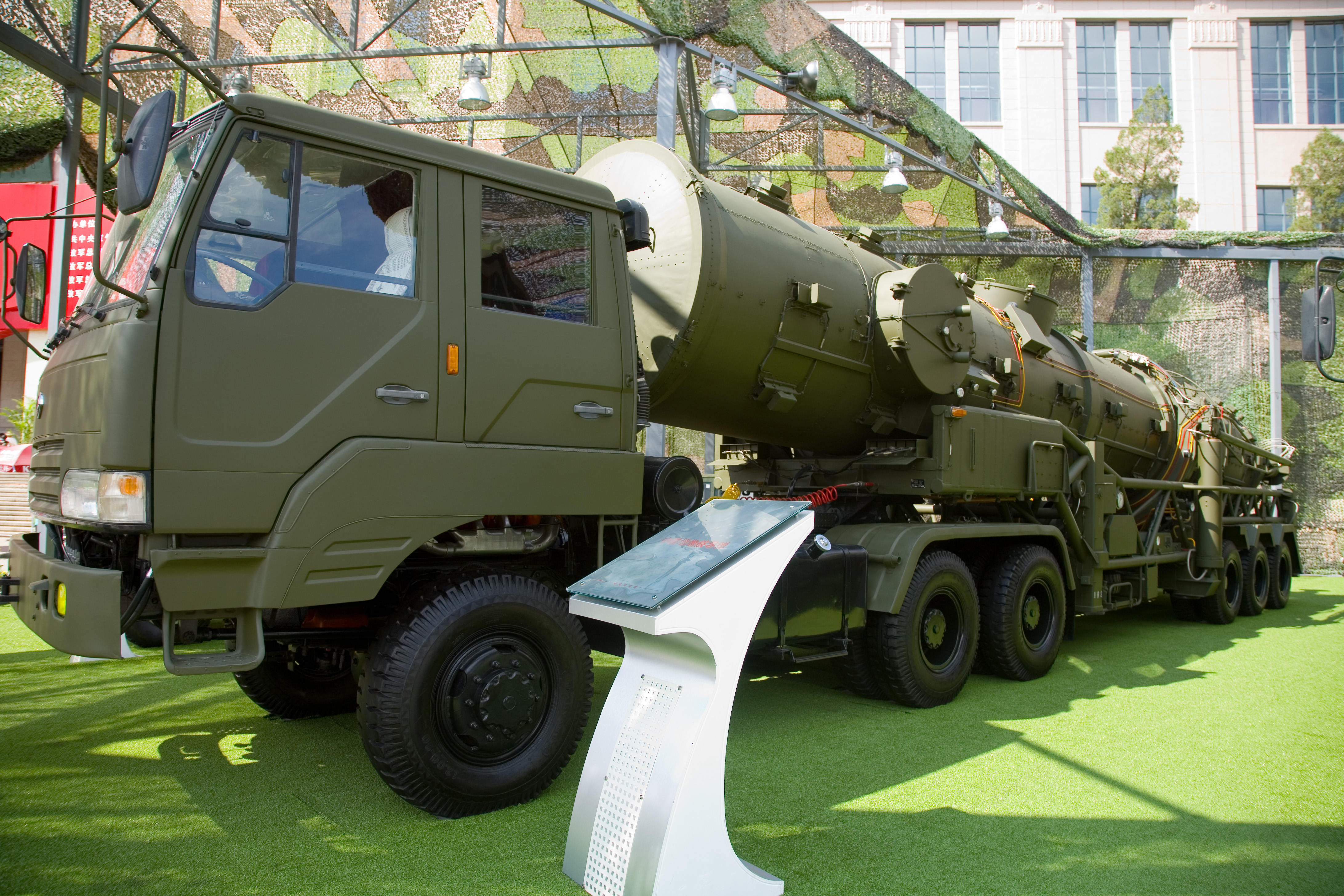 A Chinese DF-21A transporter errector vehicle on display at the "Our troops towards the sky" exhibition at the Beijing Military Museum.